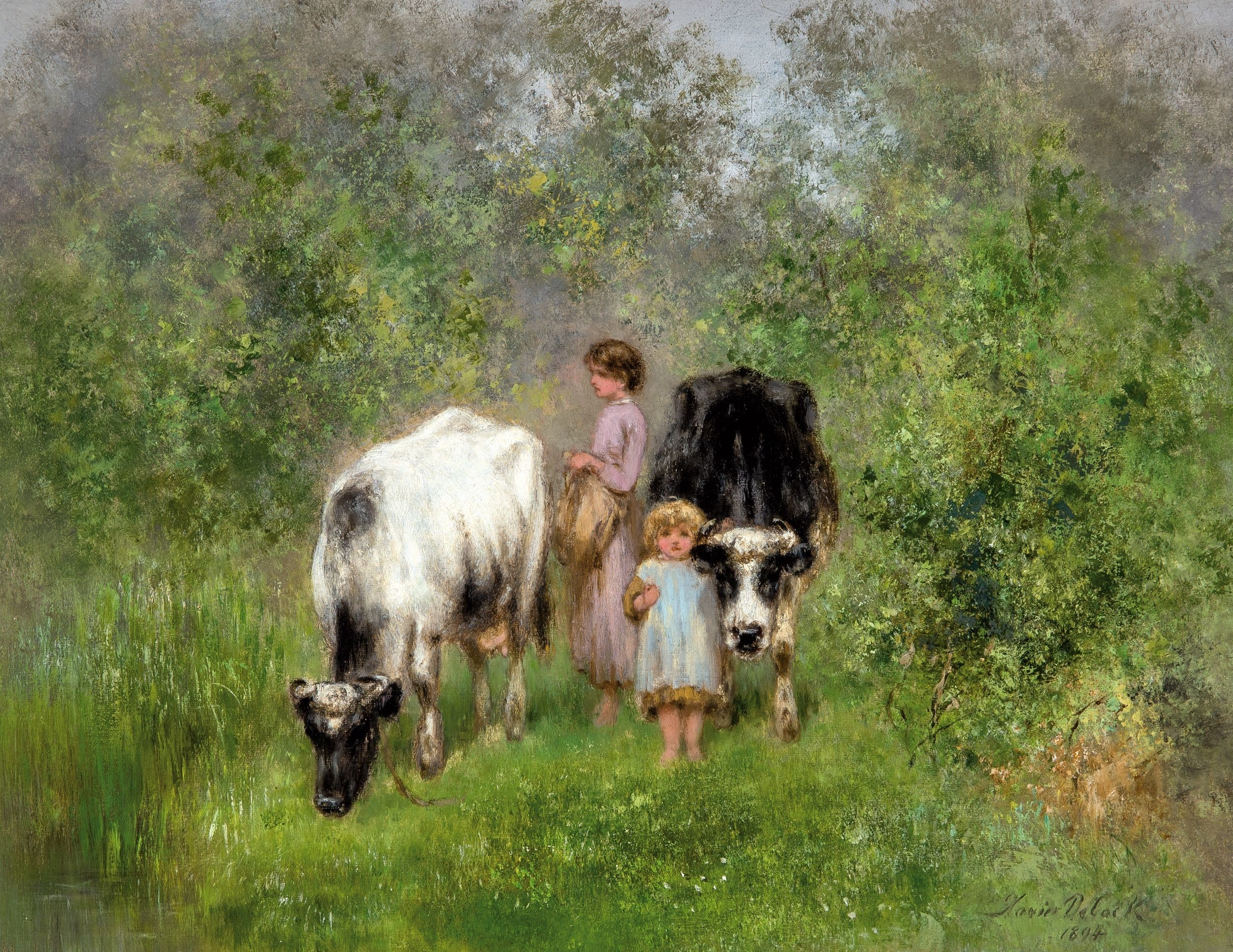 The cowherds